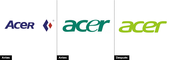 Timeline of the logos of the brand Acer